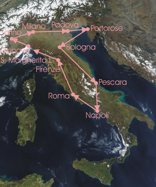 Map of Italy highlighting the stages of 1922 Giro d'Italia